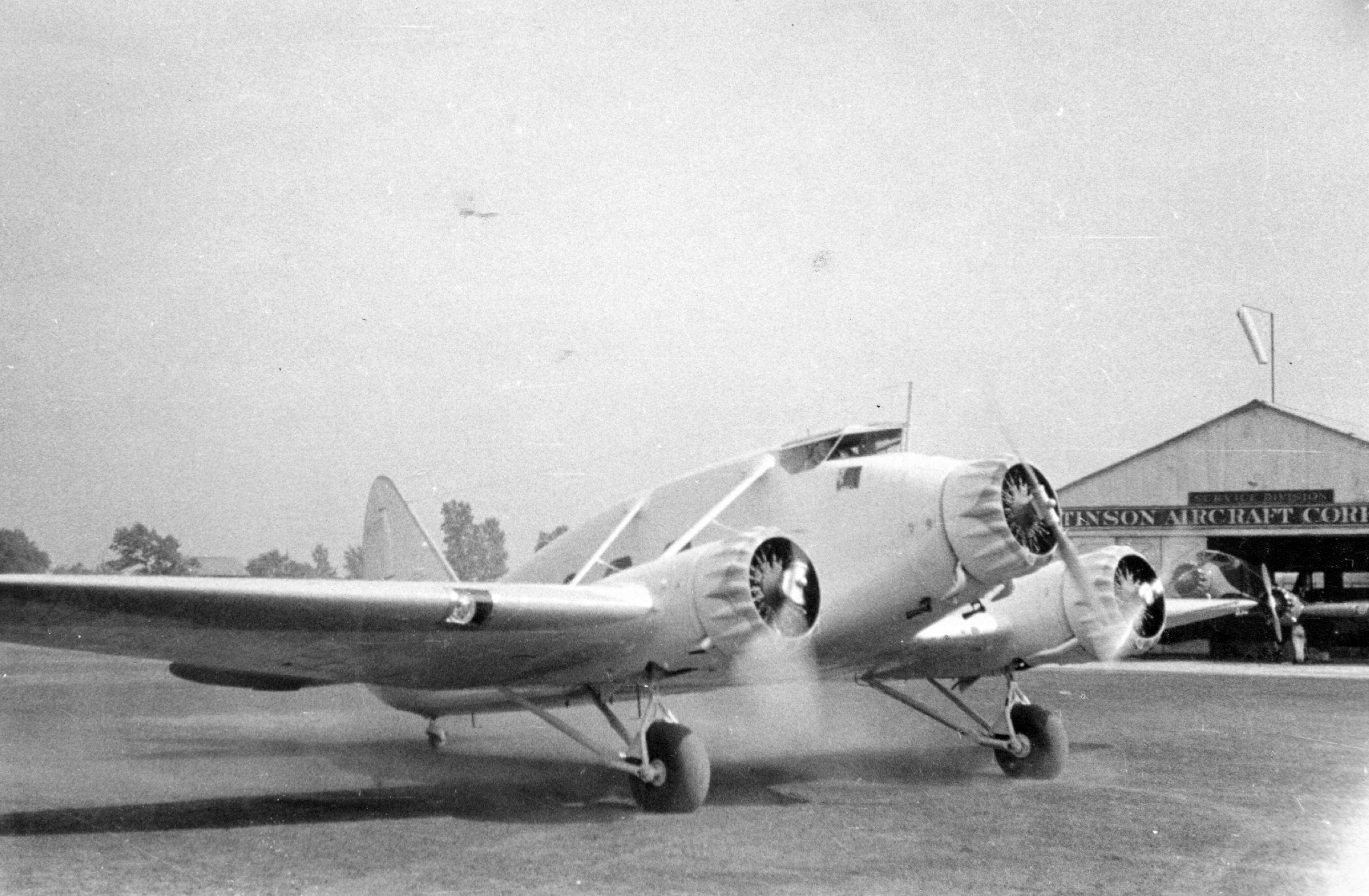 Stinson A, factory, Wayne MI.